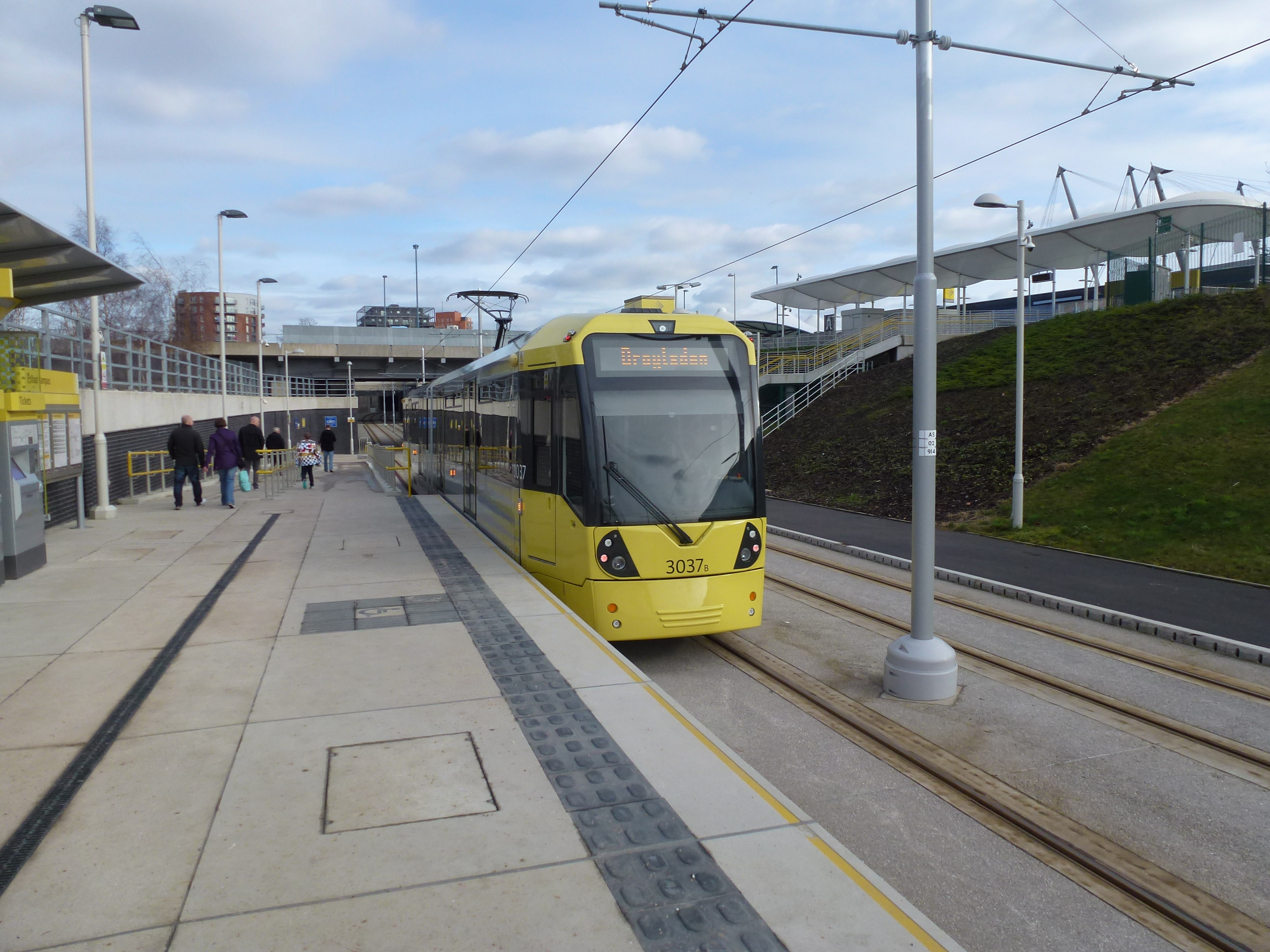 Etihad Campus Metrolink station, on 16 February 2013. Tram 3037 is Droylsden-bound.